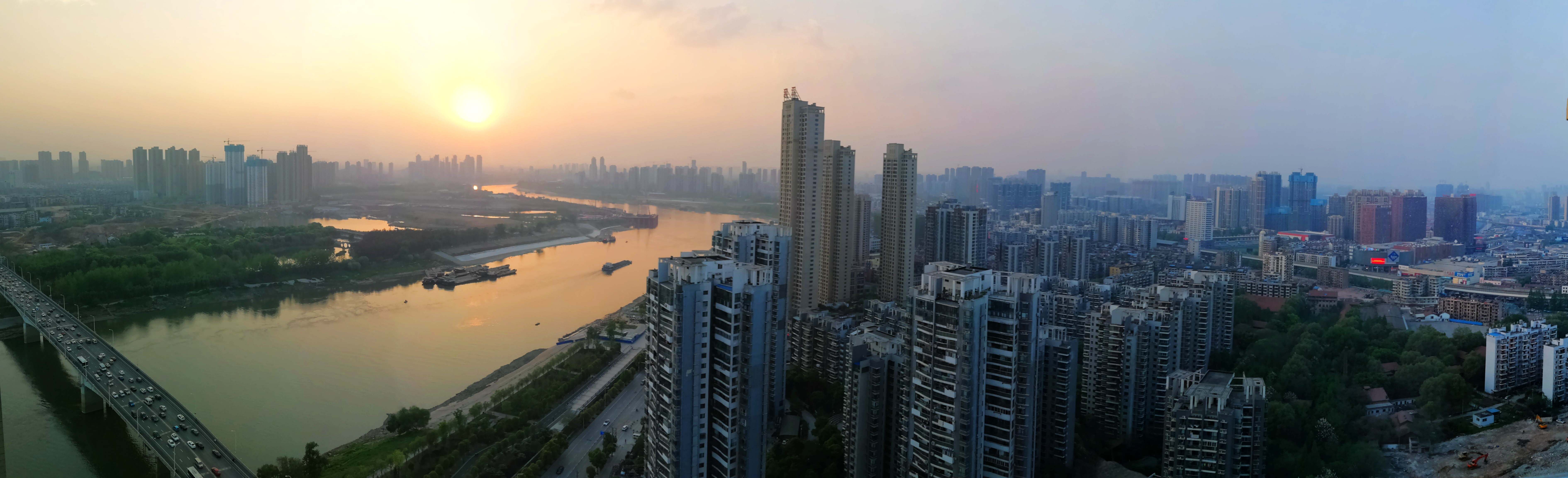 Overlook of West Qiaokou From Zongguan